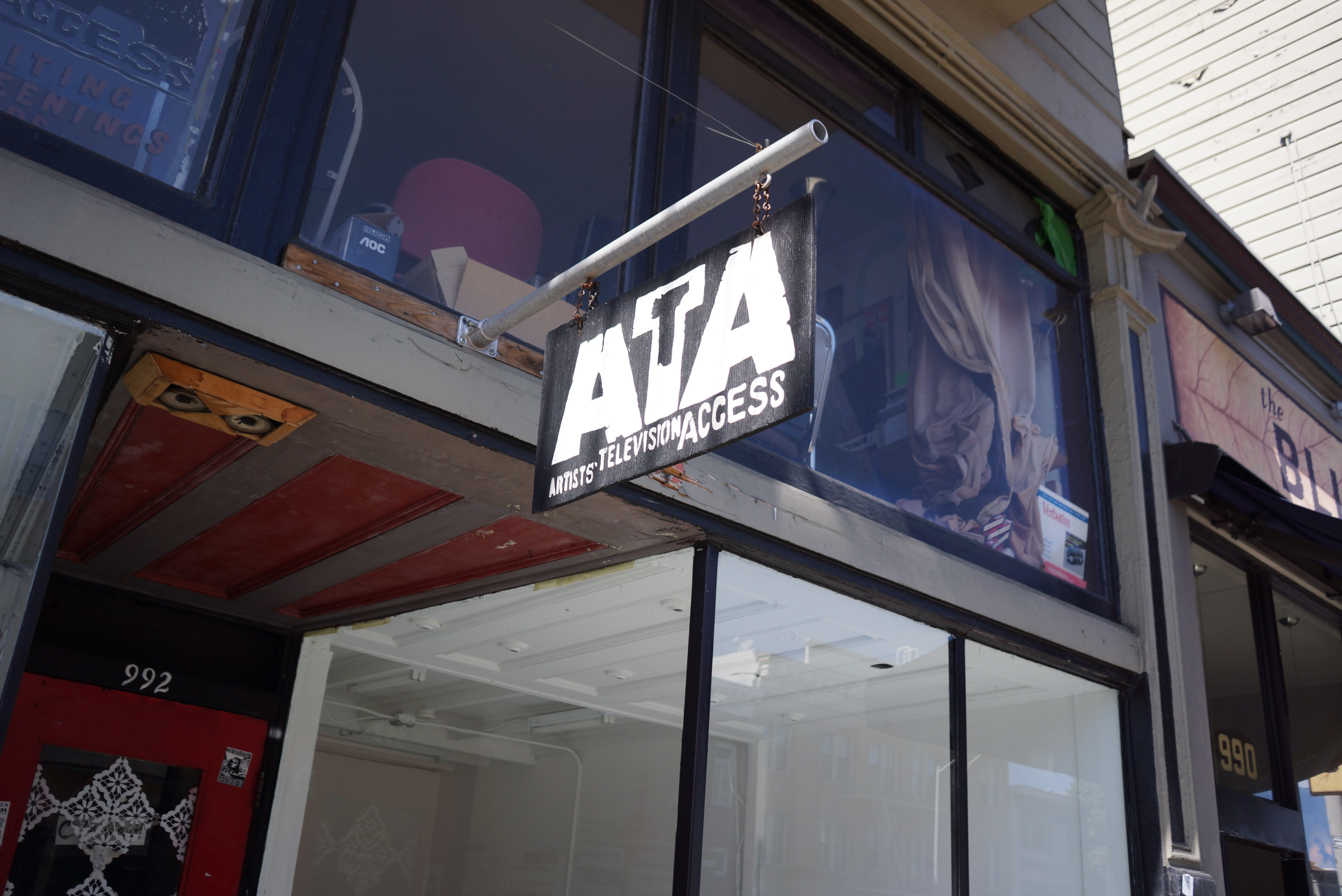 Artists' Television Access front sign